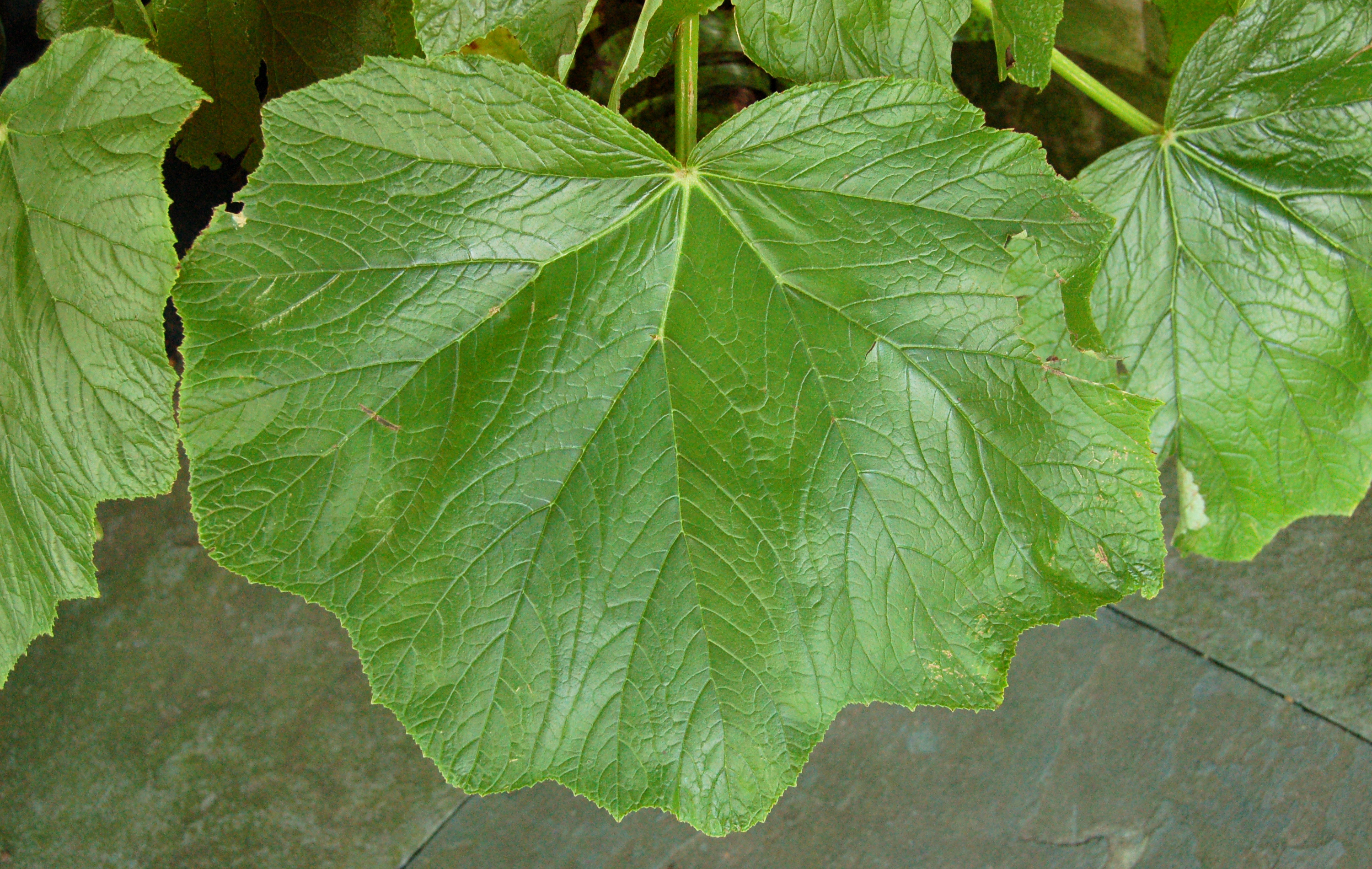 A picture of the leaf of the Begonia 'Parviflora' en plant. Photo taken at the Chanticleer Garden where it was identified.